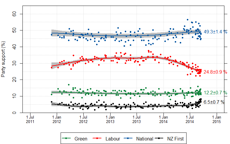 Graph showing support for political parties in New Zealand since the 2011 election, according to various political polls. Data is obtained from the Wikipedia page, Opinion polling for the Next New Zealand general election